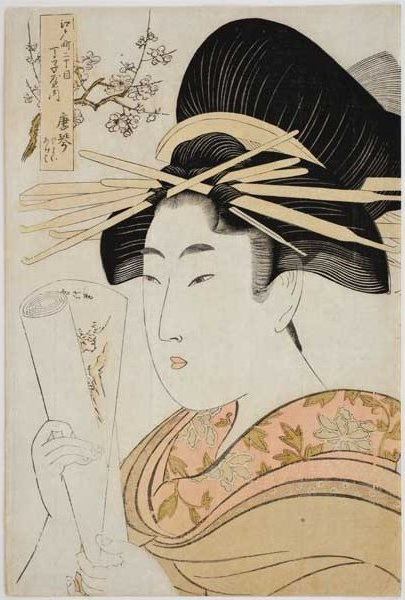 Karagoto of the Brothel House Chojiya in Edo-cho Nichome from the series A Comparison of Courtesan Flowers by Kitagawa Utamaro, 1801, woodblock print